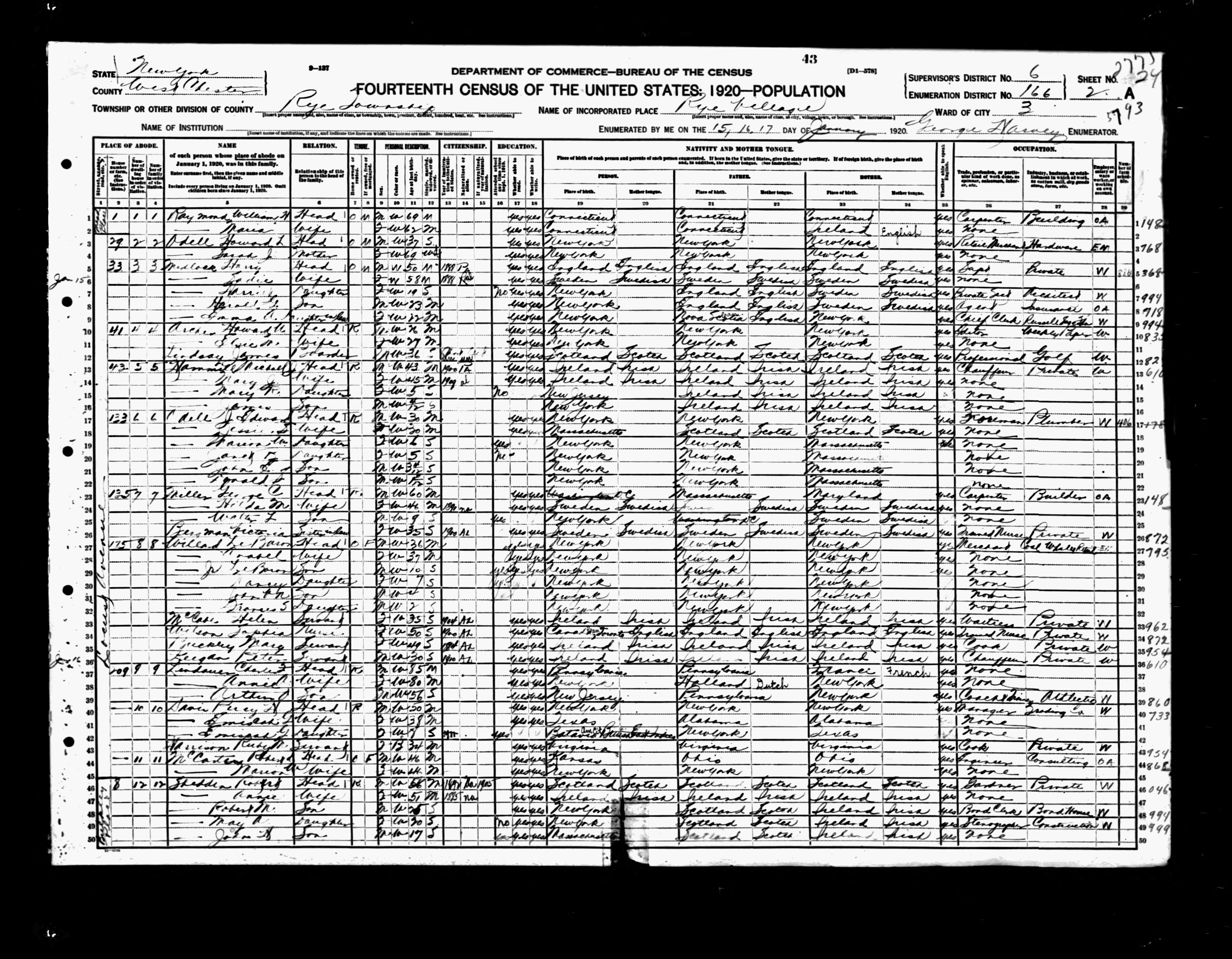 Enumeration District 166, Sheet 43, Line 37, Image 03/25 209 Locust Avenue, Rye, Westchester County, New York, USA Contents 1 Household 2 Household interpreted 2.1 Notes 3 Licensing 4 Original upload log Household Charles F. Lindauer, head, age 85 Anna A. Lindauer, wife, age 80 Arthur Lindauer, son, age 56 Household interpreted Charles Frederick Lindauer I husband of Anna Kershaw Anna Augusta Kershaw wife of Charles Lindauer Arthur Oscar Lindauer son of Charles and Anna Notes Note: Charles is incorrectly index as "Clark F. Lindauer"